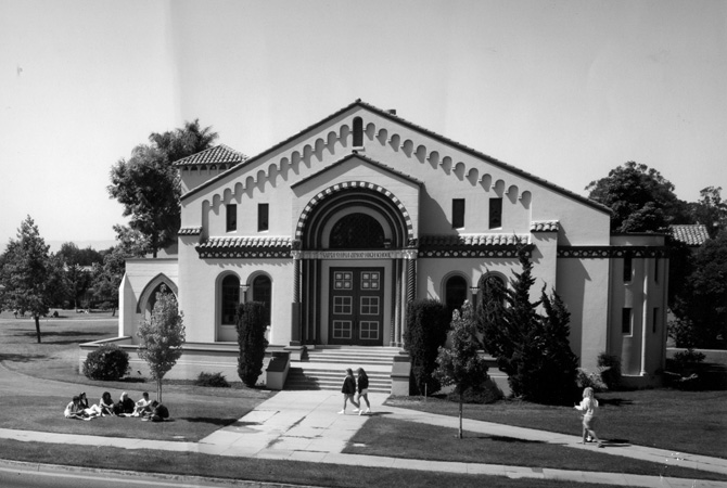 Santa Maria High School. The Santa Maria Joint-Union High School District is the oldest in the State of California.